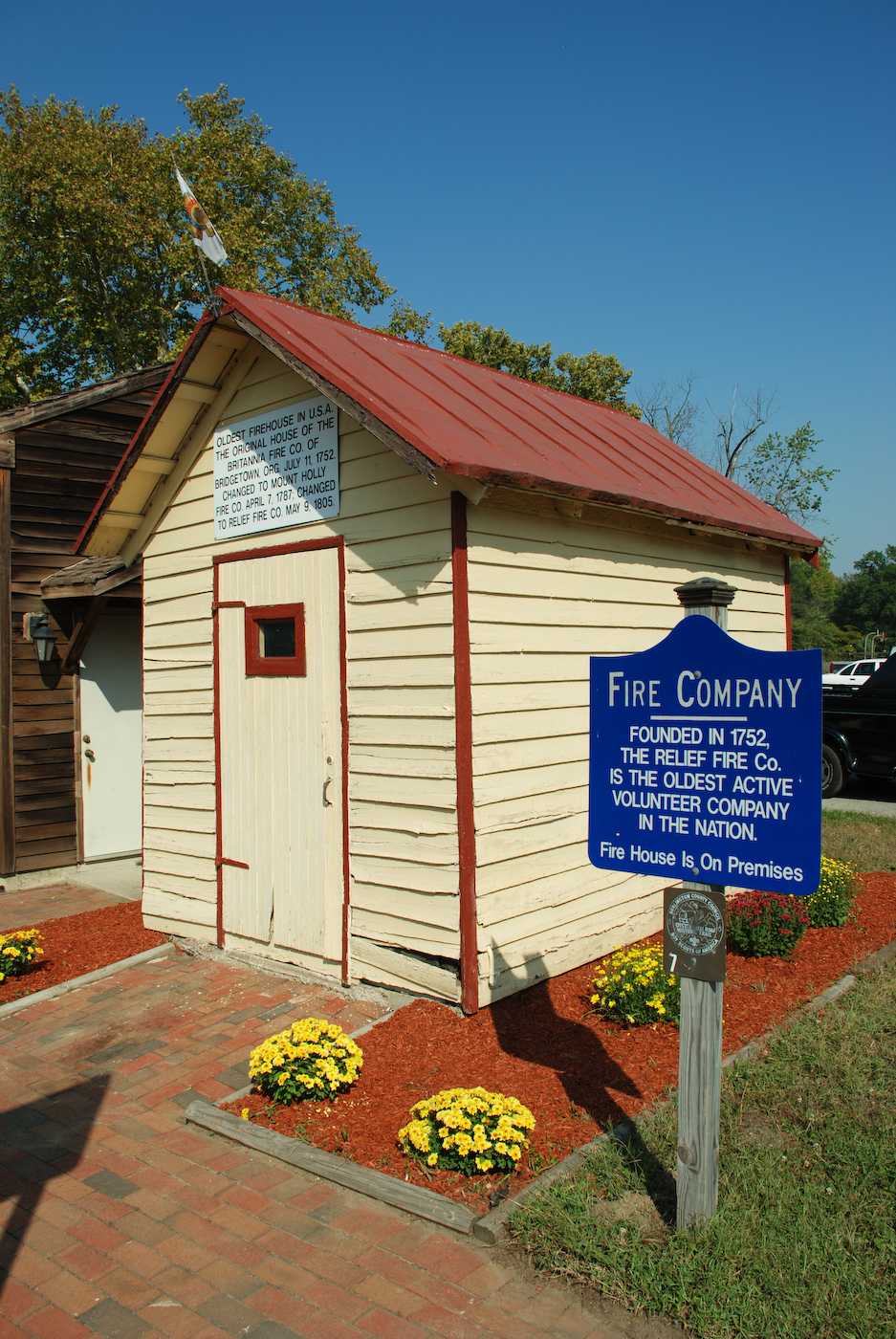 Old firehouse, Mount Holly, New Jersey